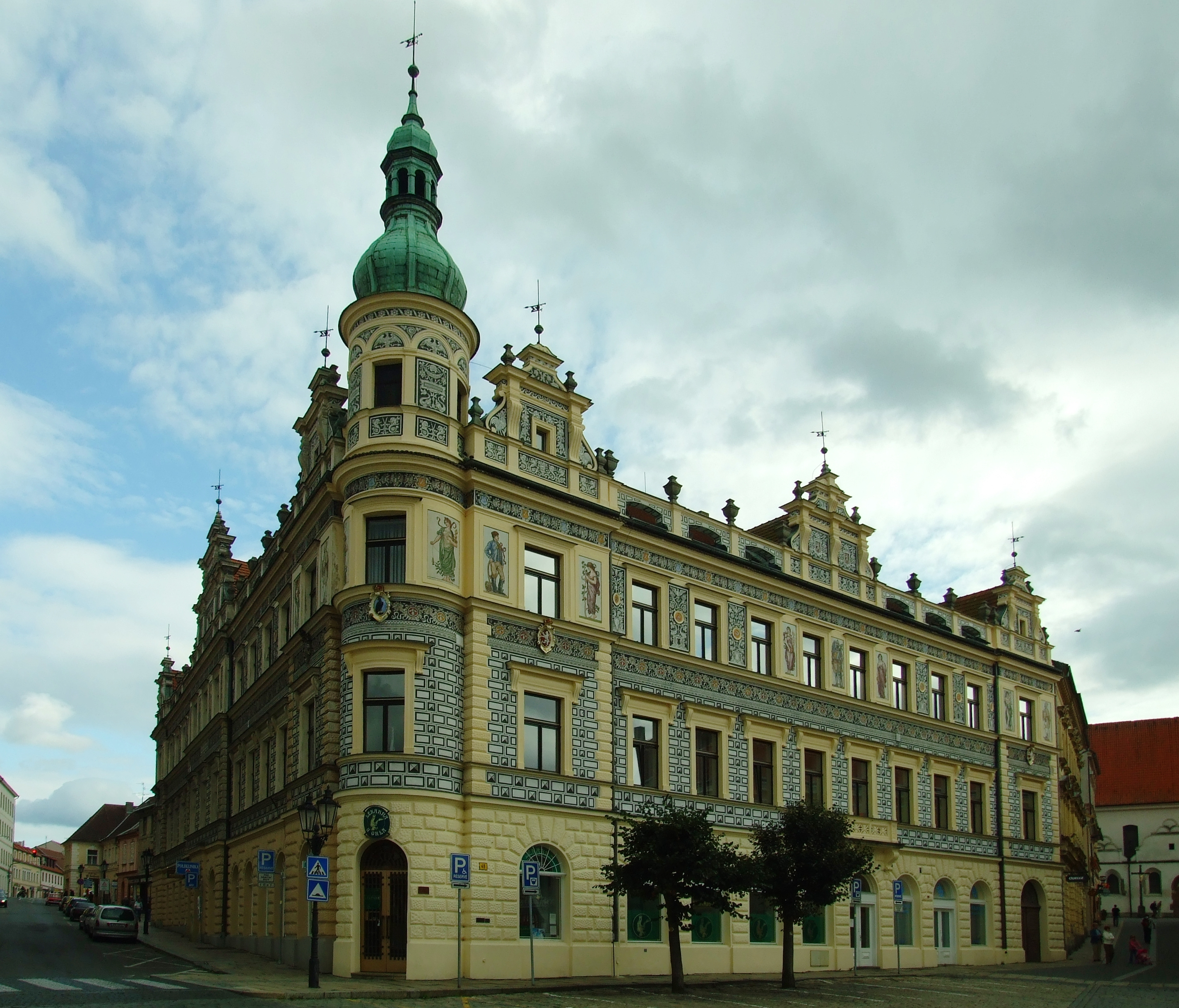 Alšovo náměstí square in Písek - policlinic, South Bohemian Region, CZ